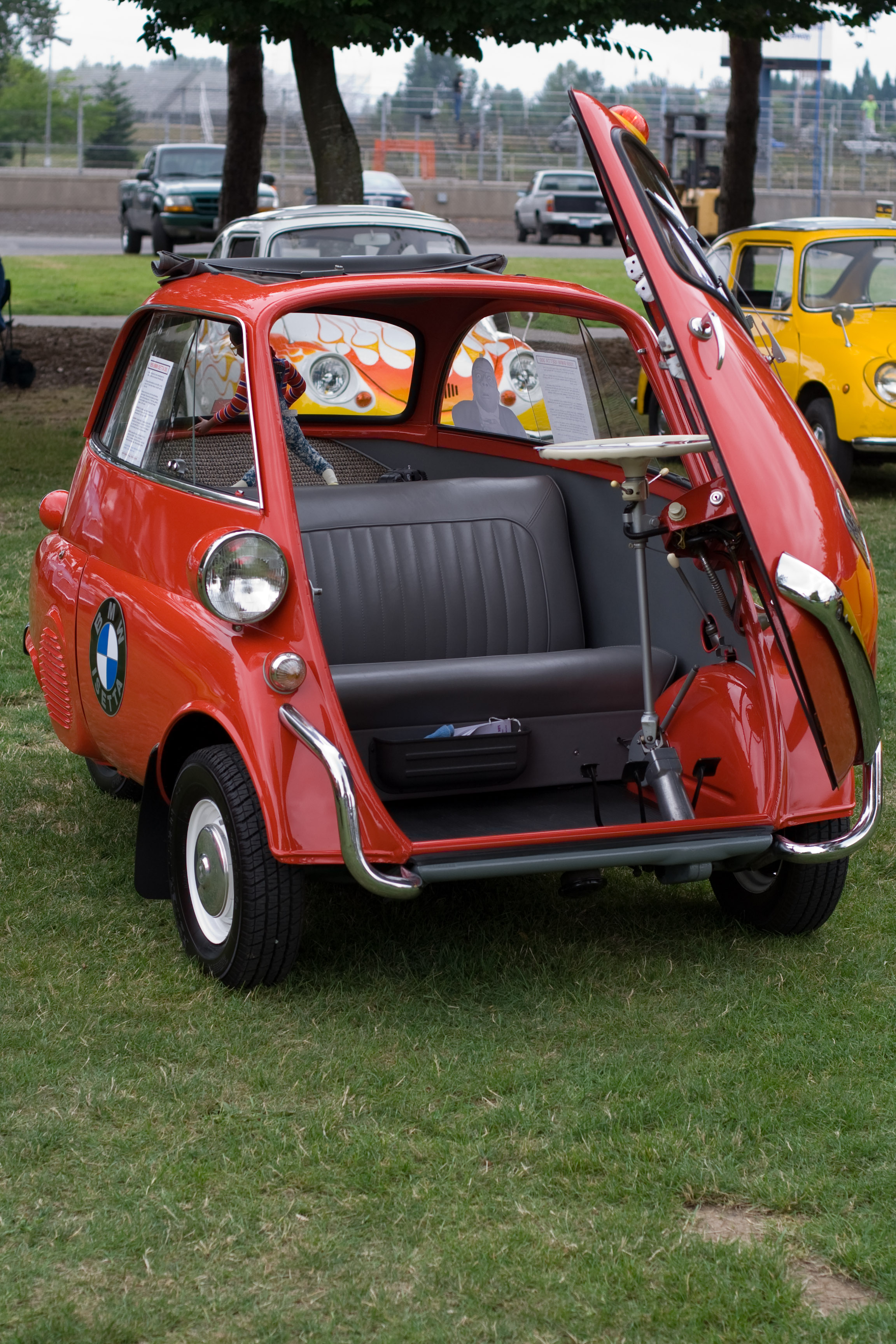 BMW Isetta showing the odd door arrangement.20070728_MG_7926.jpg